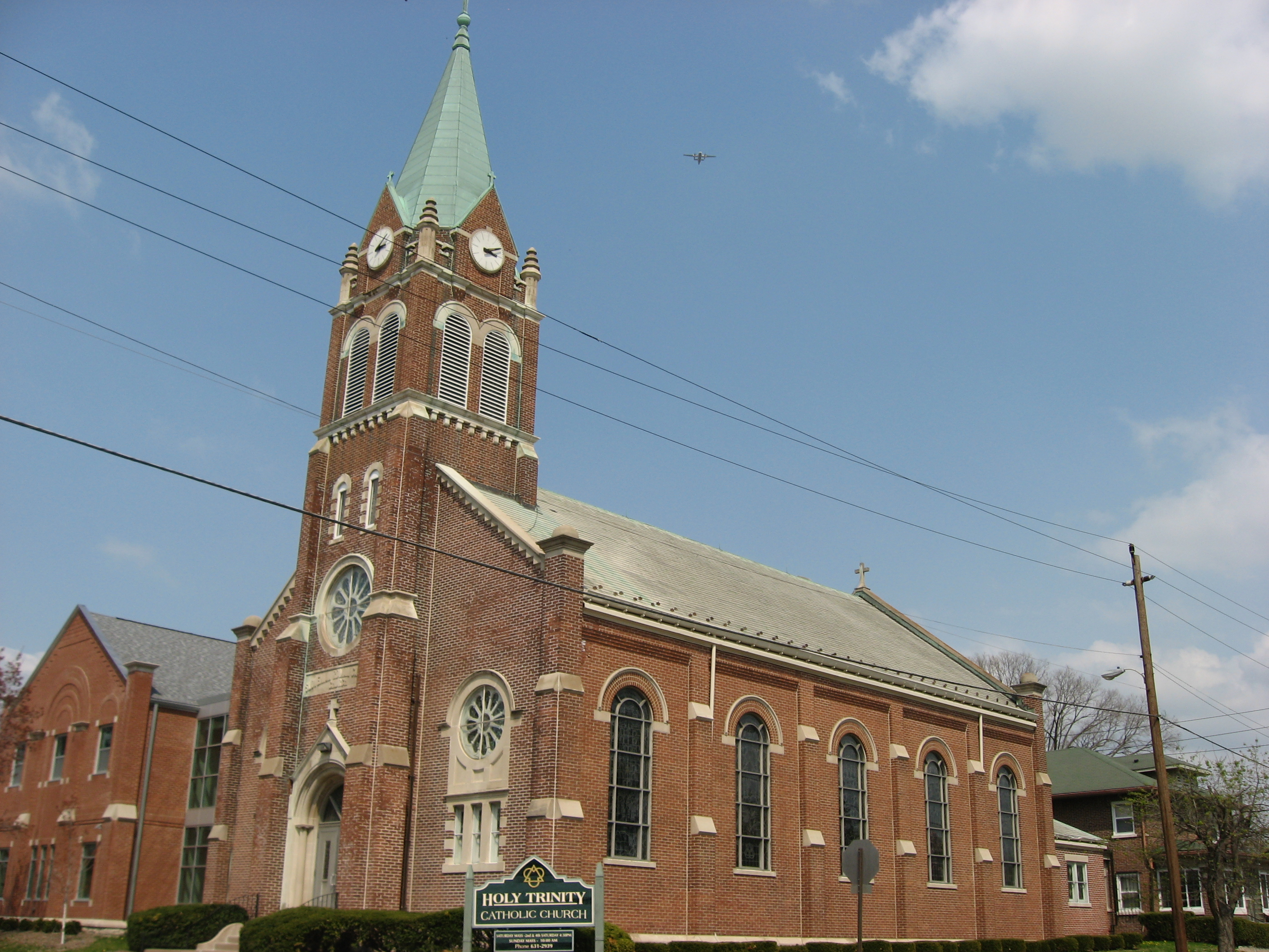 Front of Holy Trinity Catholic Church, located at 901 N. Holmes Avenue in the Haughville neighborhood of Indianapolis, Indiana, United States. Built in 1907 for a Slovenian parish, it is part of the Haughville Historic District, a historic district that is listed on the National Register of Historic Places.